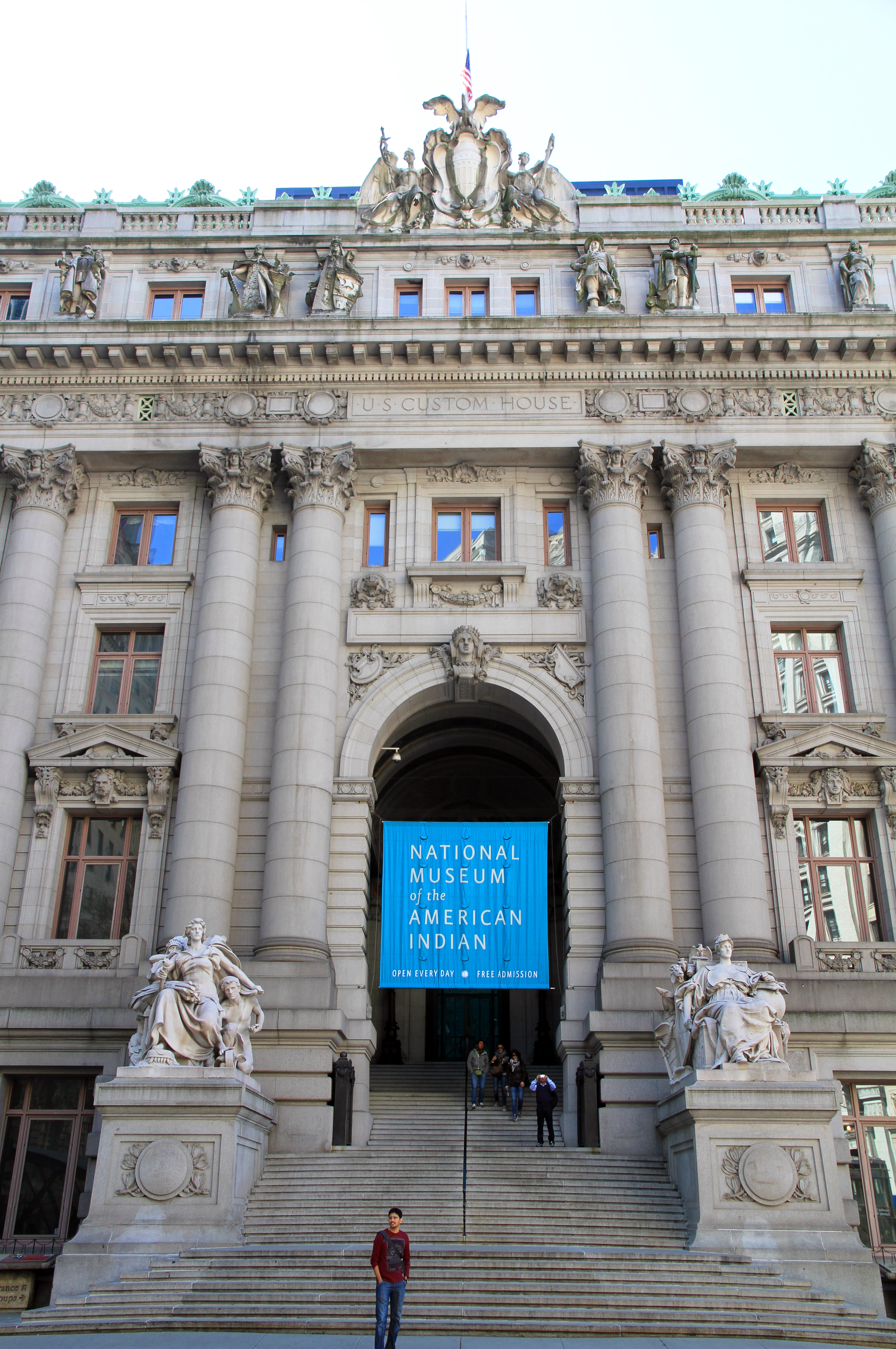 National Museum of American Indian